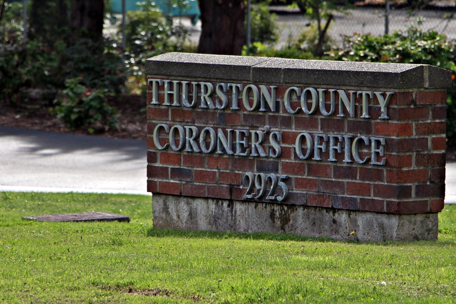 sign outside the office of the Thurston County Coroner - Washington state, USA